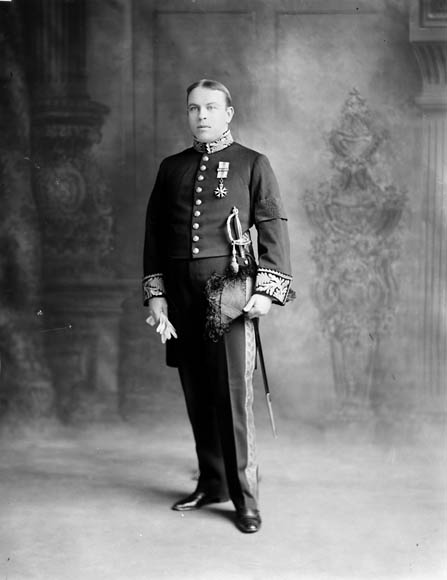 W.L. Mackenzie King, M.P. (Waterloo North, Ont.) , Minister of Labour